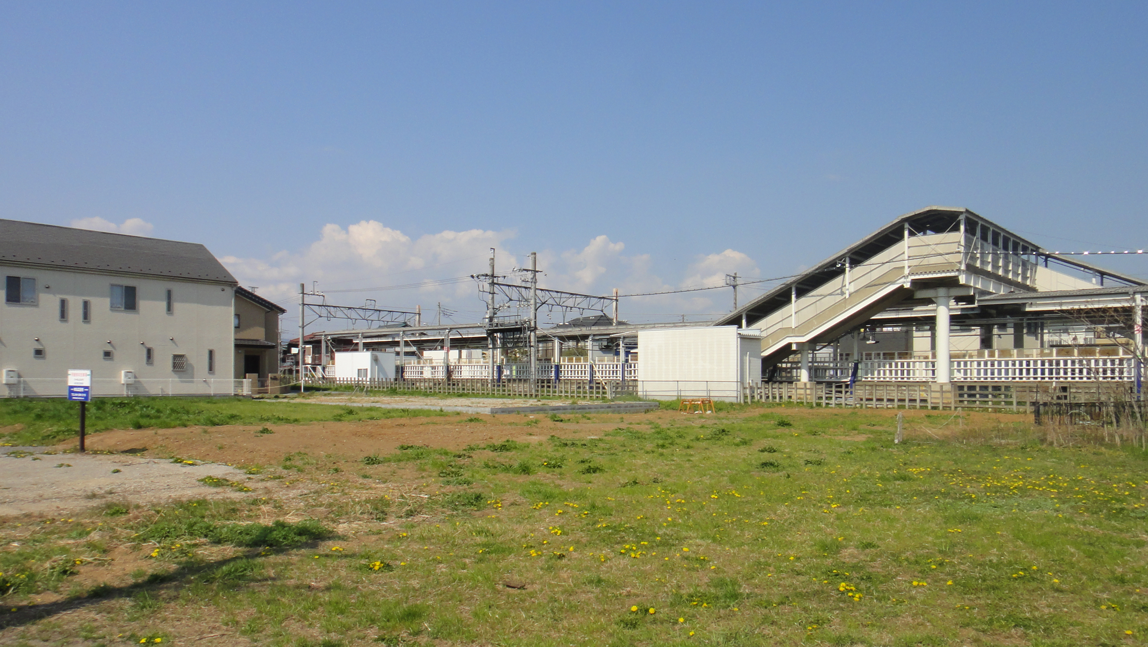 The south side of Ippommatsu Station on the Tobu Ogose Line, showing the land reserved for a future station forecourt